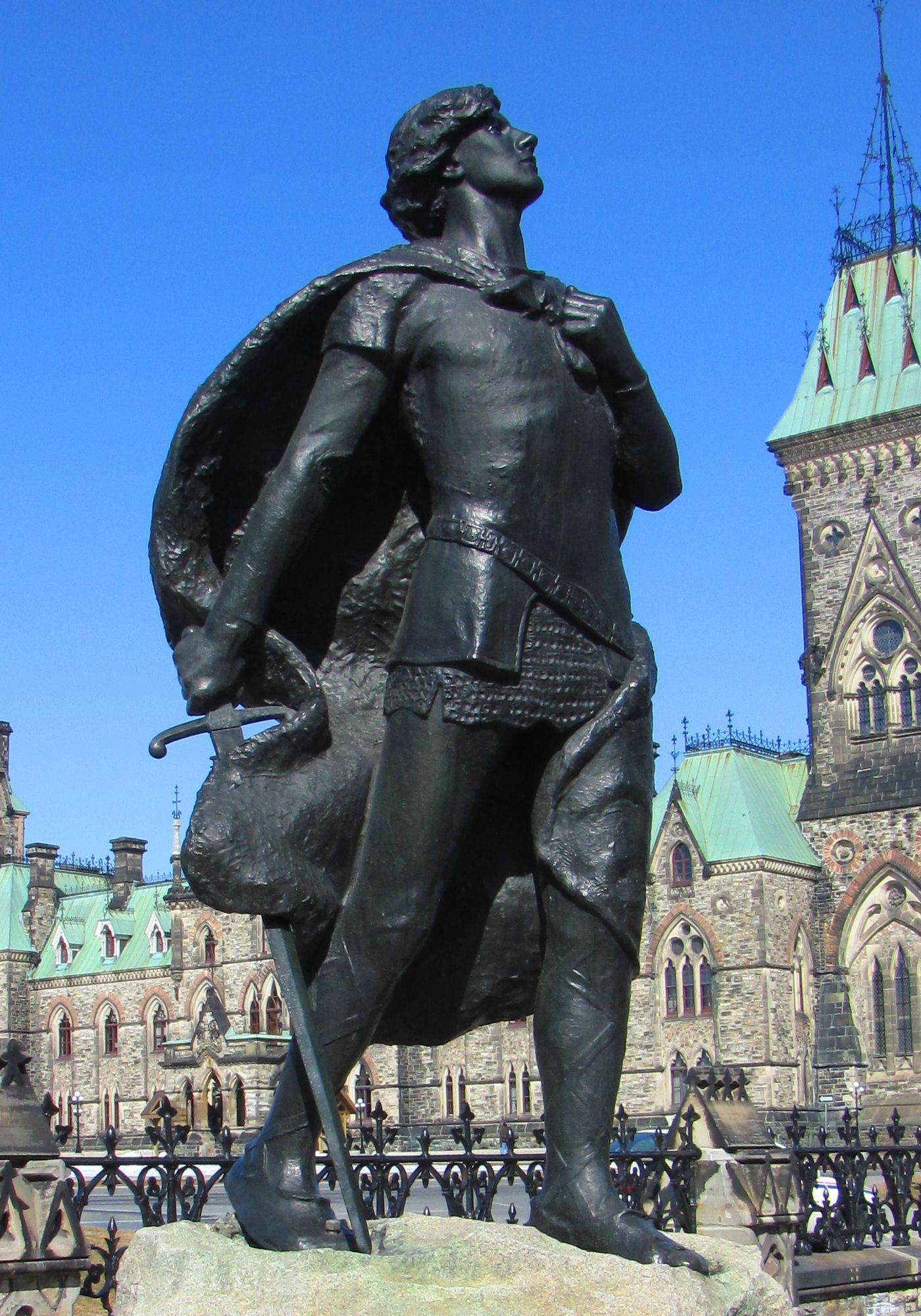 Sir Galahad statue, Parliament Hill, Ottawa, Ontario, Canada